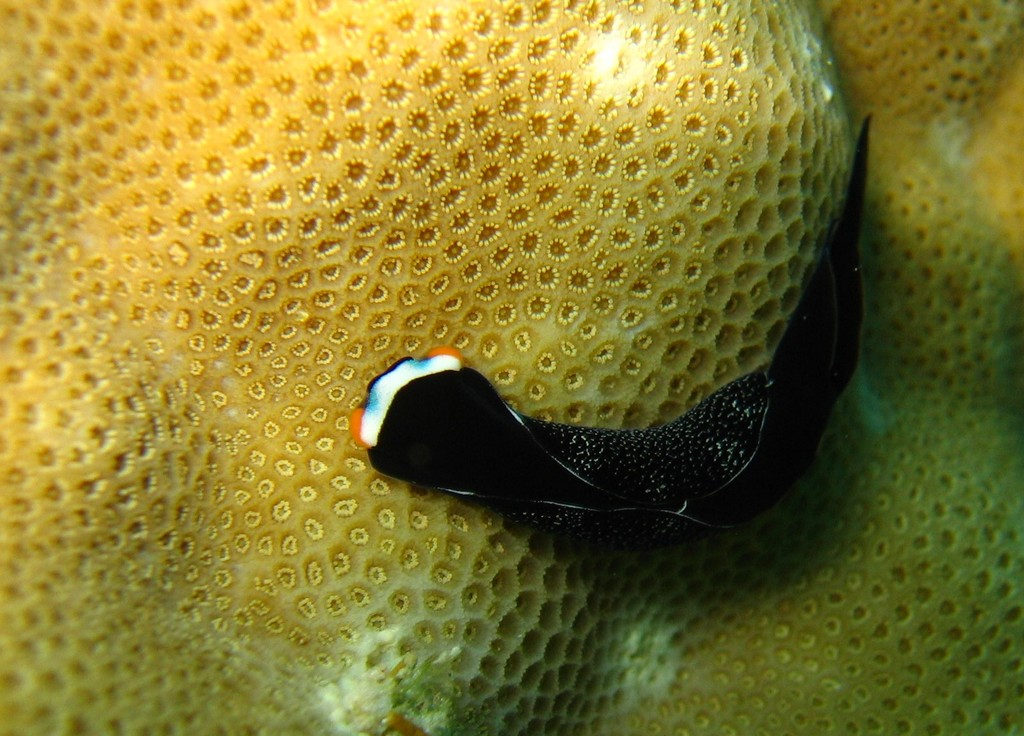 An Inornate Chelidonura (Chelidonura inornata). Tracey's Wonderland, Ribbon Reefs, Great Barrier Reef